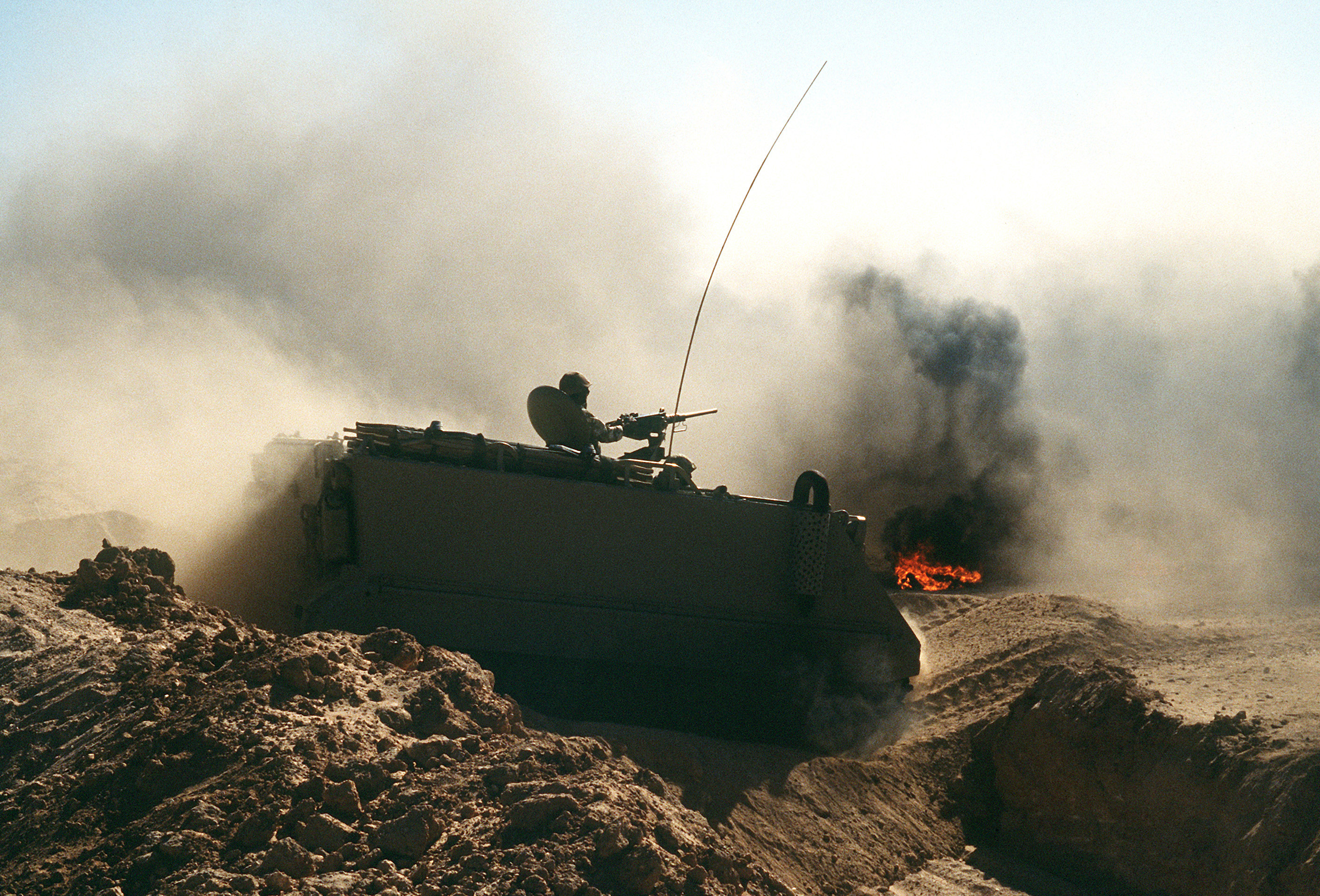 A Kuwaiti M-113 armored personnel carrier crosses a trench during a capabilities demonstration at a Kuwaiti outpost during Operation Desert Shield.